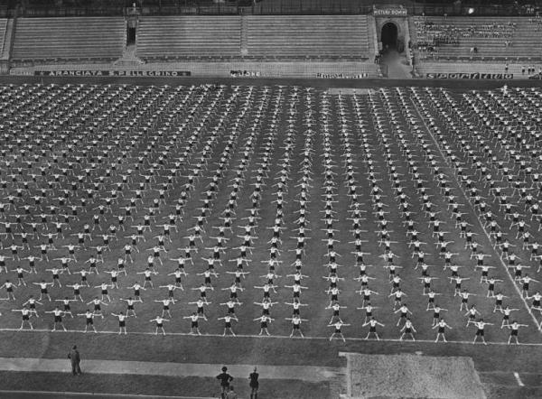 A gymnastic show of the Italian Youth of the Lictor at the Arena Civica in Milan, Italy, during the Fascist era.